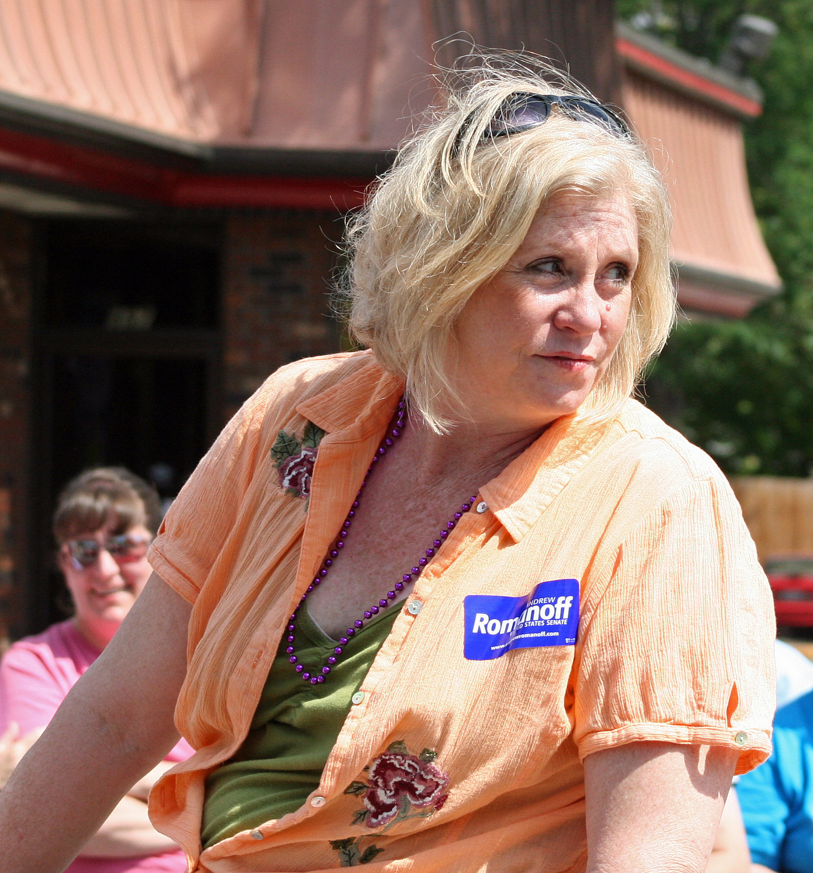 Colorado State Senator Cheri Jahn.